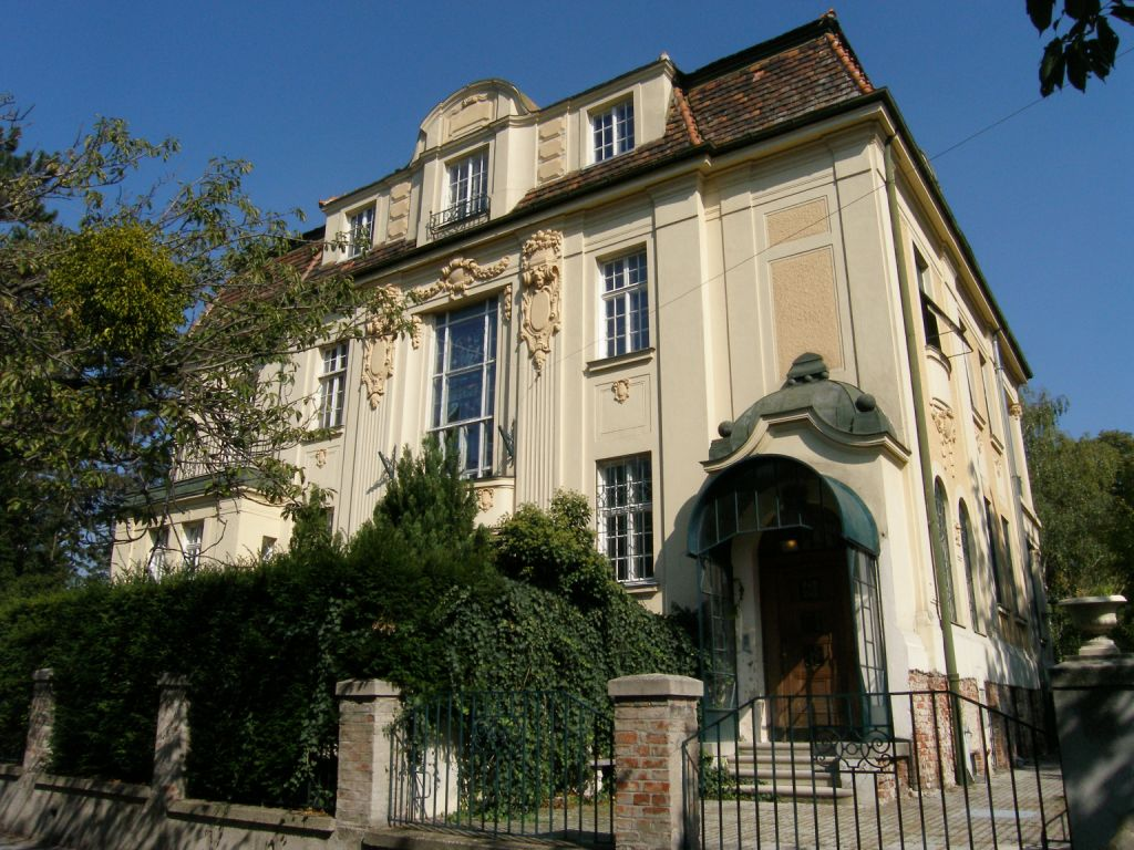 Villa Birkbrunn in Vienna